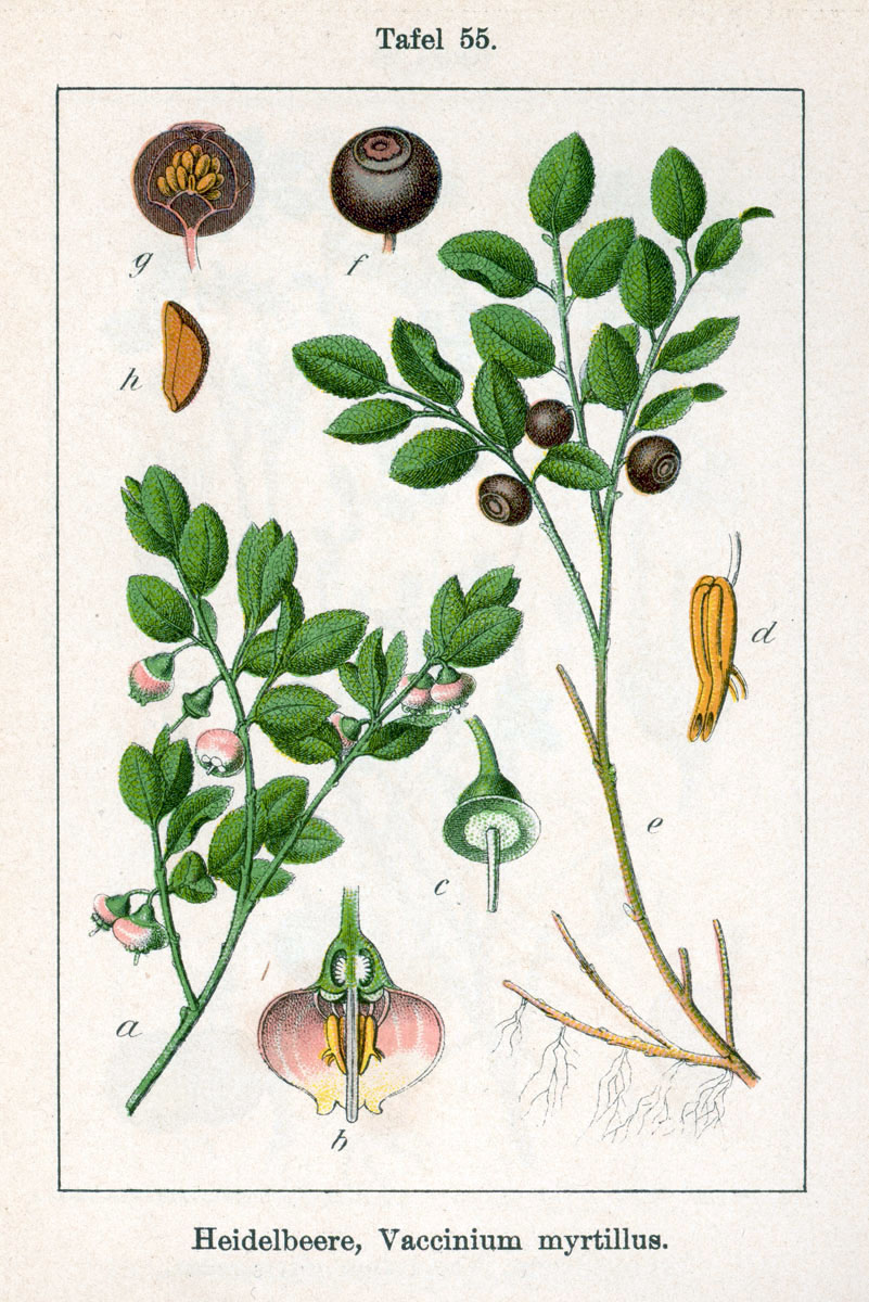 Vaccinium myrtillus L. Original Description Heidelbeere, Vaccinium myrtillus